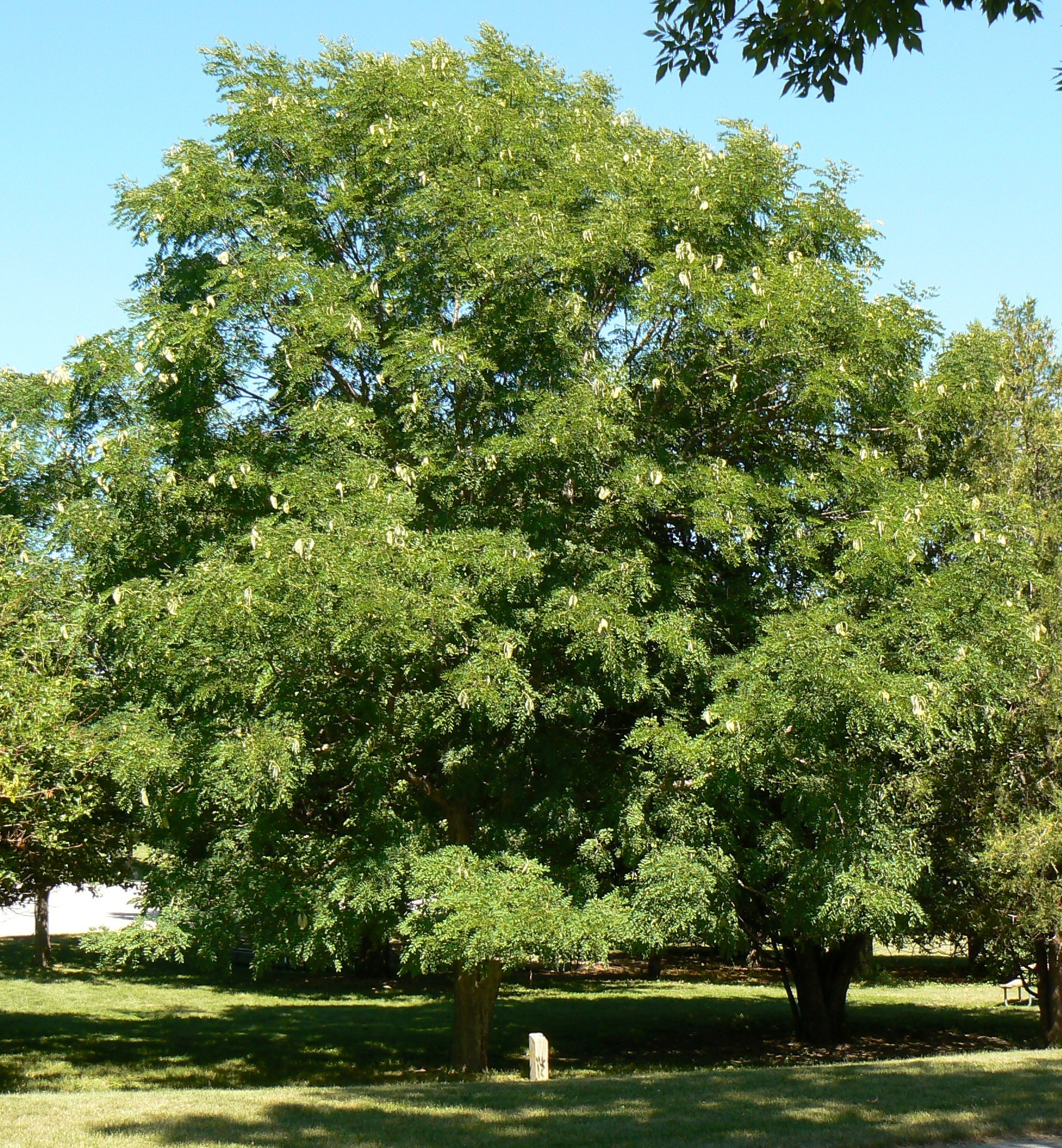 Kentucky Coffeetree at DeSoto National Wildlife Refuge